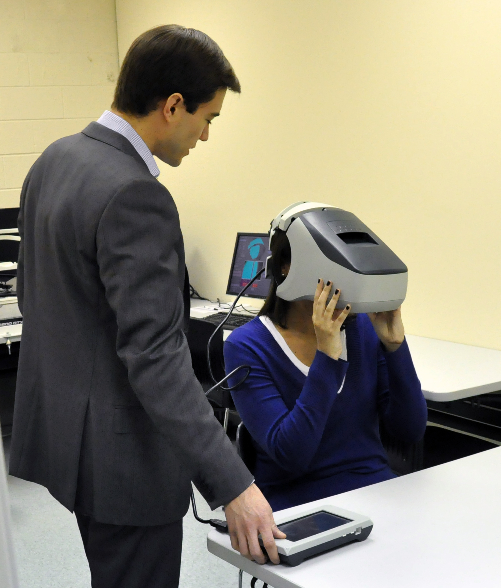 Flickr description Kevin Coppersmith of Sync Think, Inc., tests a subject at Natick Soldier Systems Center using a portable eye-tracking device his company developed. The device might one day be used in the field to check Soldiers for possible traumatic brain injuries. (Photo by Bob Reinert/USAG-Natick Public Affairs)